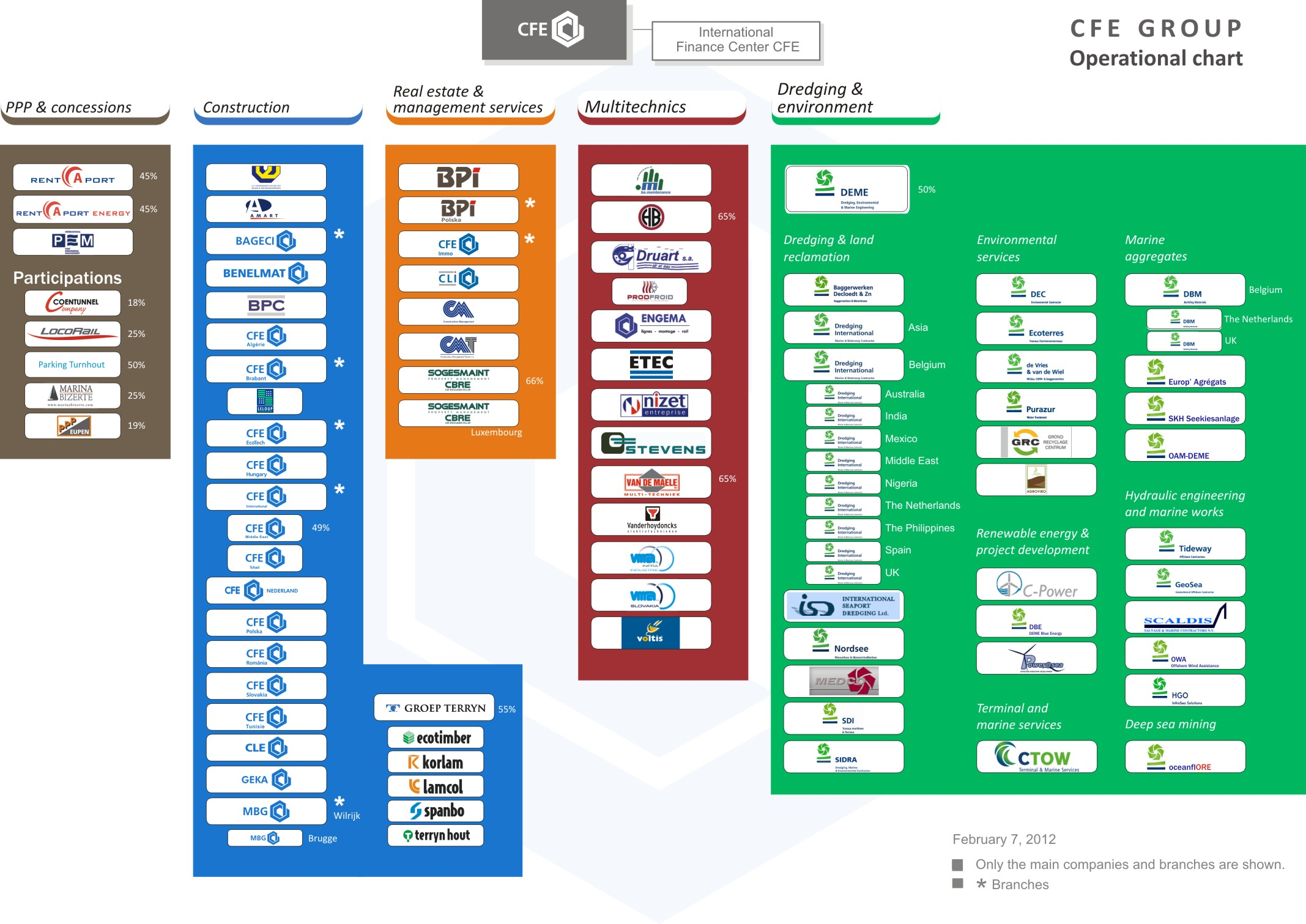 Flowchart of the entities (CFE°